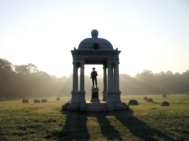 Monument to the Florida soldiers who fought at the Battle of Chickamauga.